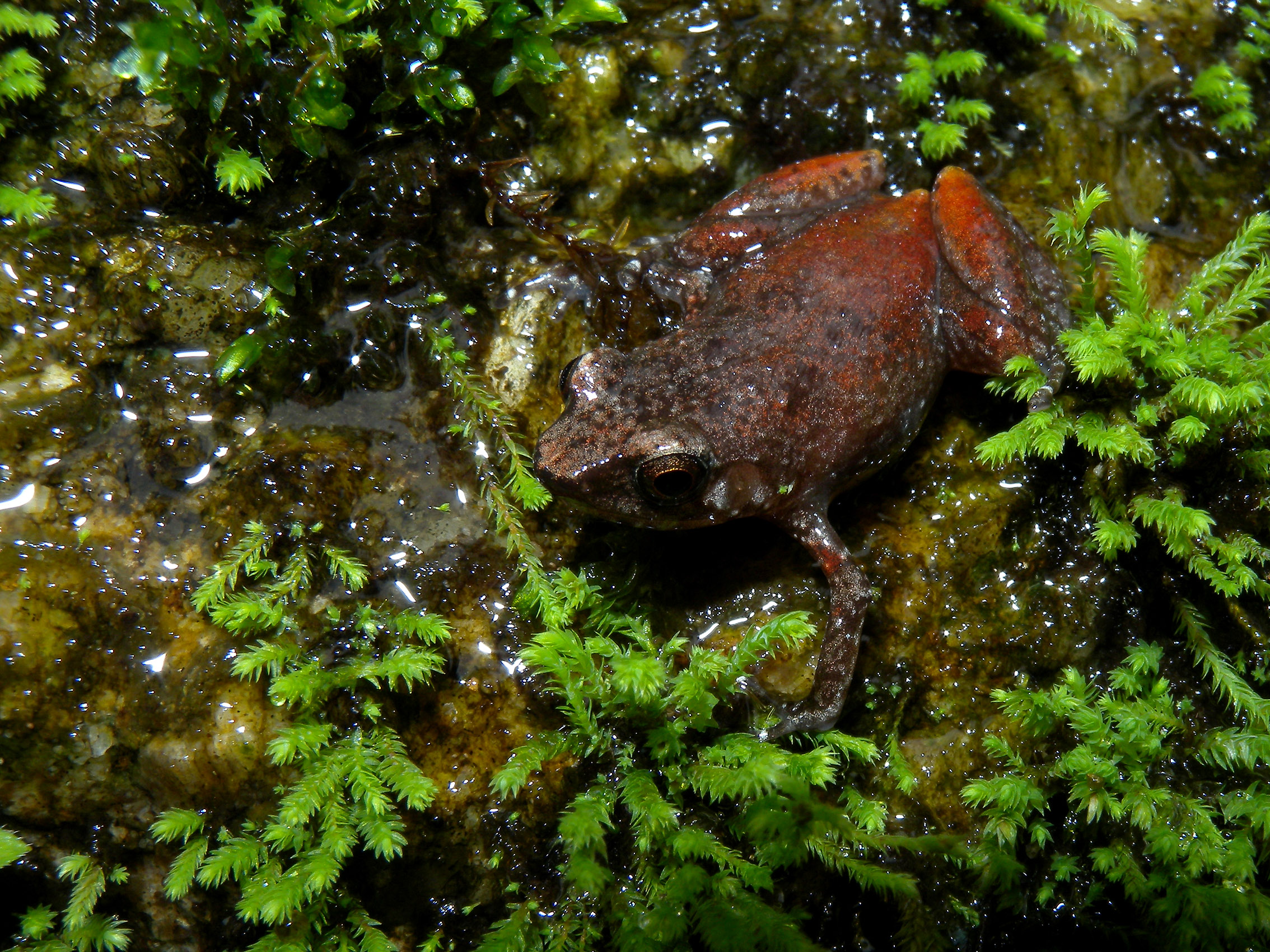 The froglet on this picture appears to belong to a species that is still unnamed. "Camp Marojejia", 775 metres of altitude, 12 December 2008.